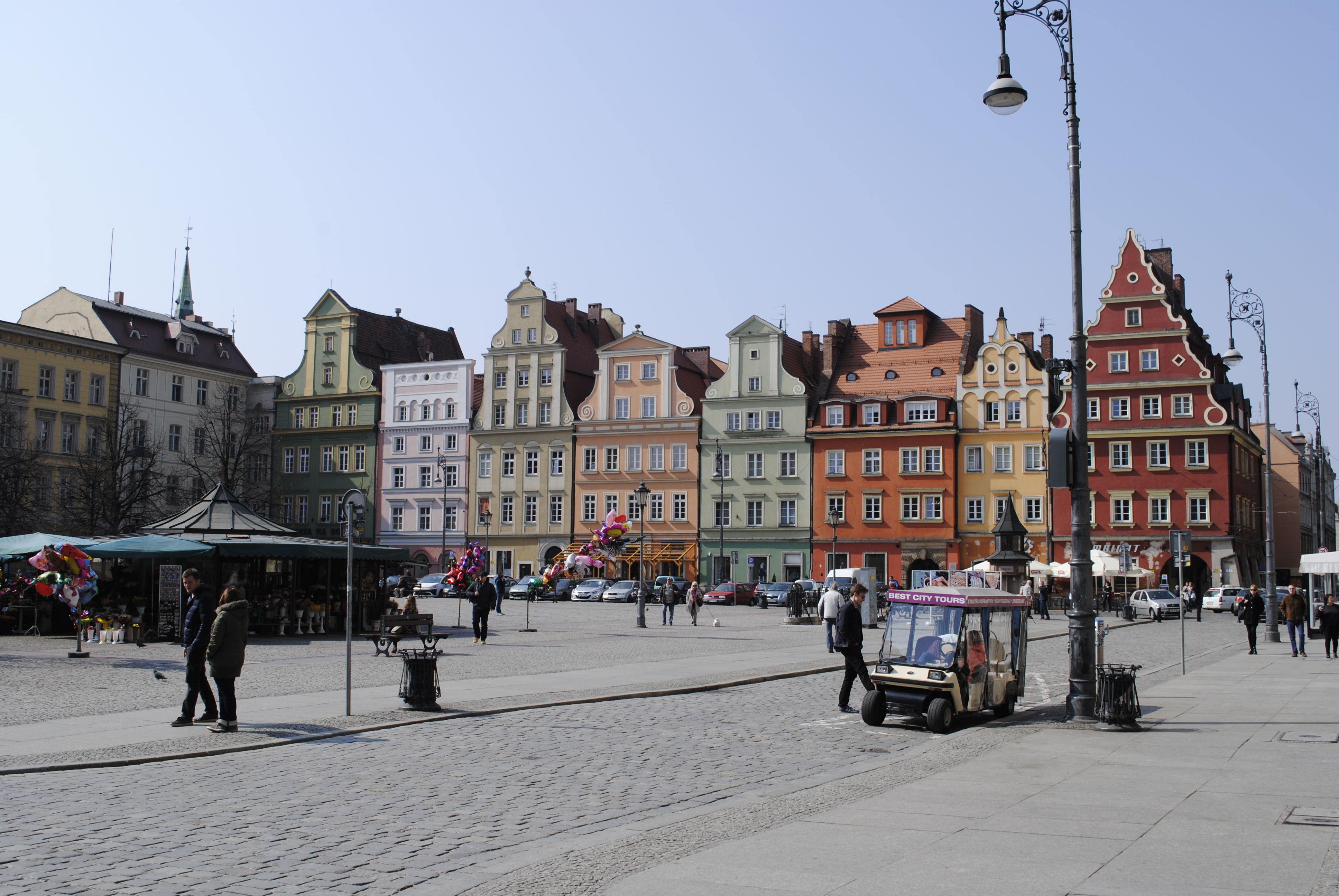 Plac Solny in Wroclaw